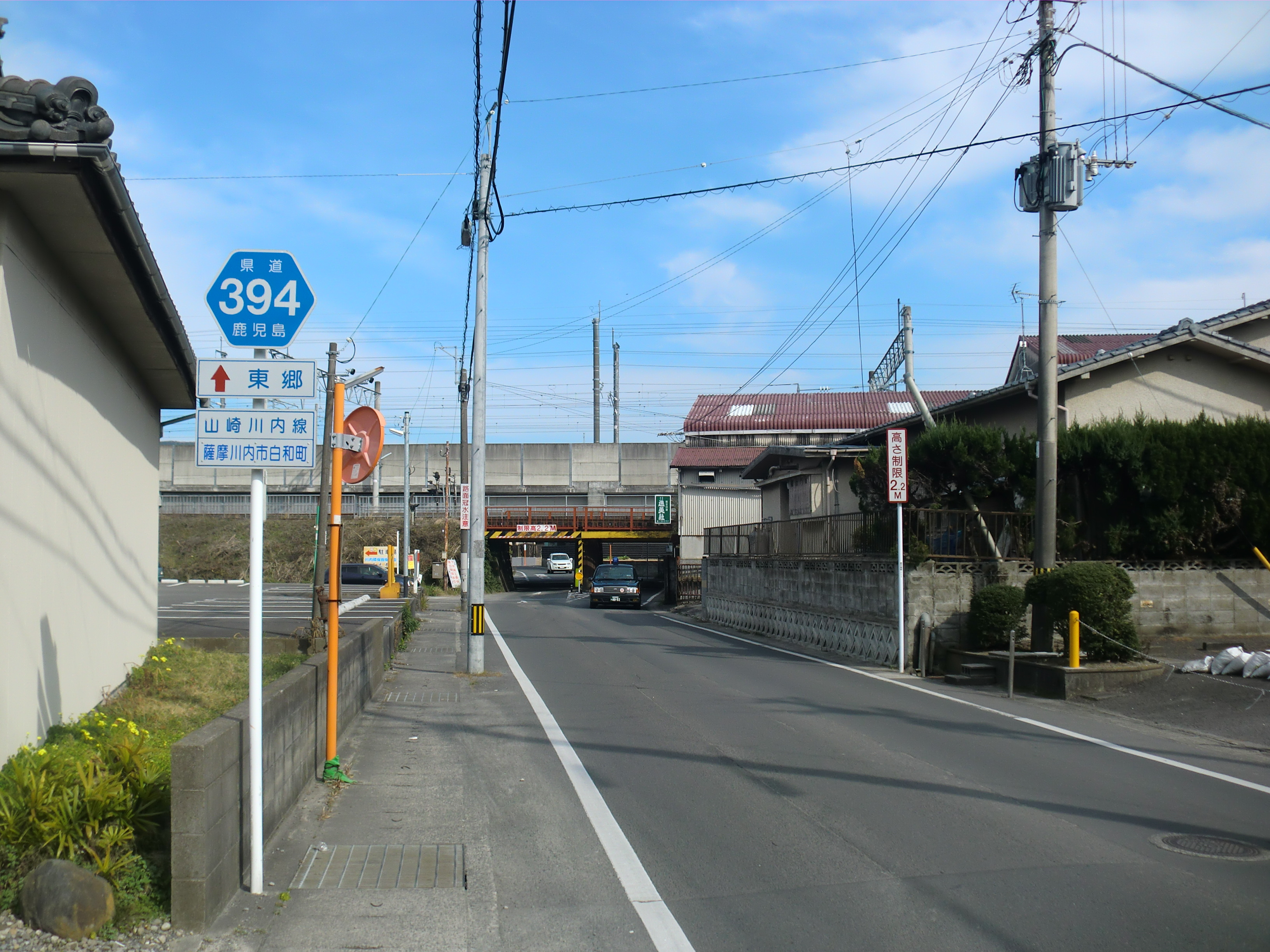 The Kagoshima Prefectural Road Route 394 in Satsumasendai City